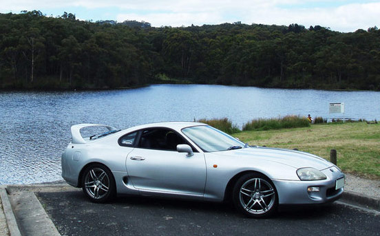 Photographer: Van Strapp Please note: Wheels are not from the factory.